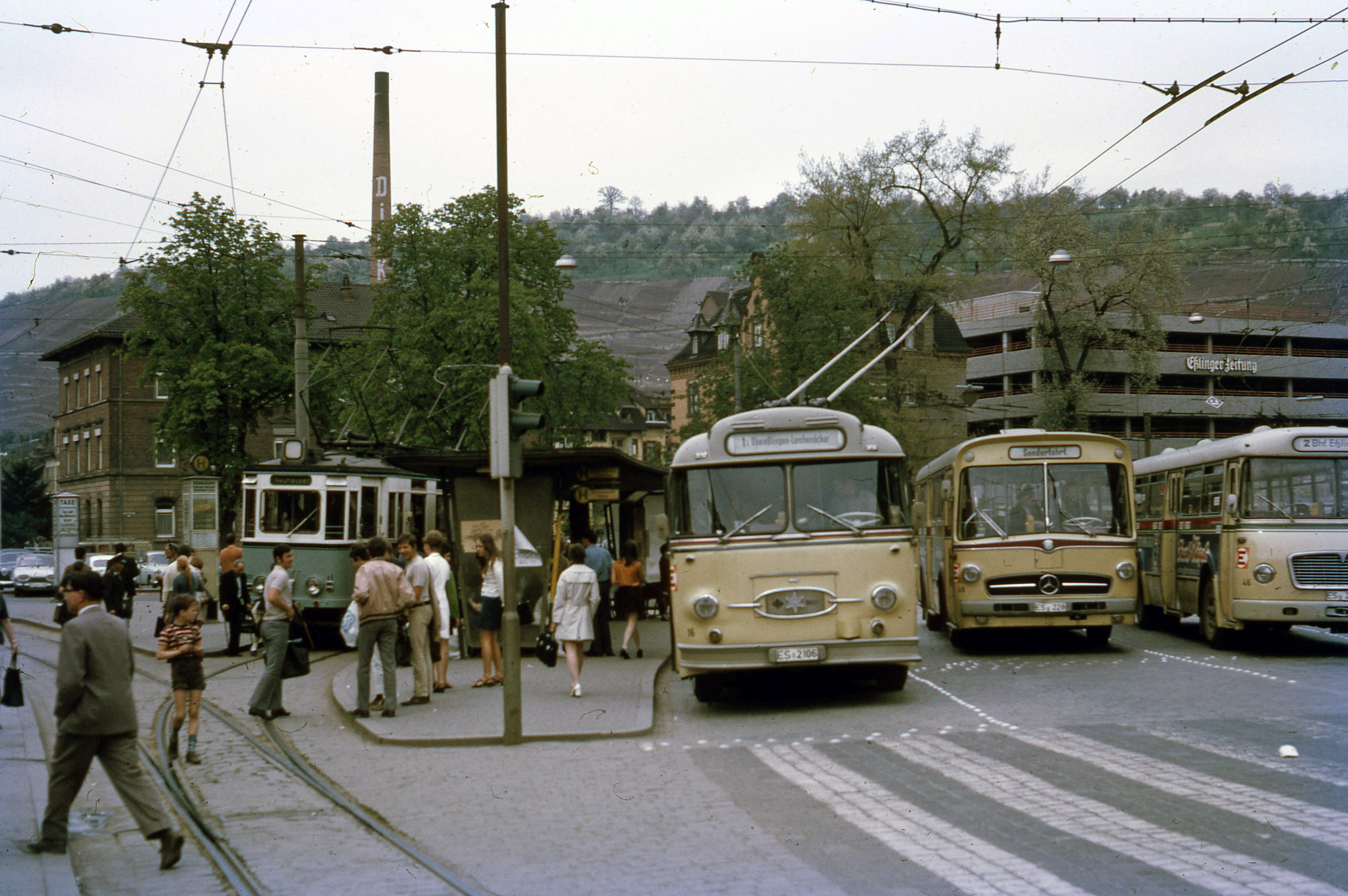 Tram, trolleybus and buses outside the railway station at Esslingen-am-Neckar, Germany, near Stuttgart. The tram is on the END line (Straßenbahn Esslingen–Nellingen–Denkendorf), which closed in 1978. Trolleybus no. 16 of the Esslingen trolleybus system was a 1960 Henschel HS 160 OSL. (Taken on Kodachrome on 8 May 1970)